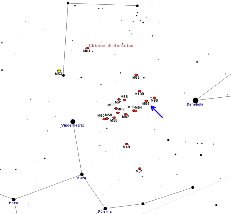 Map of M99